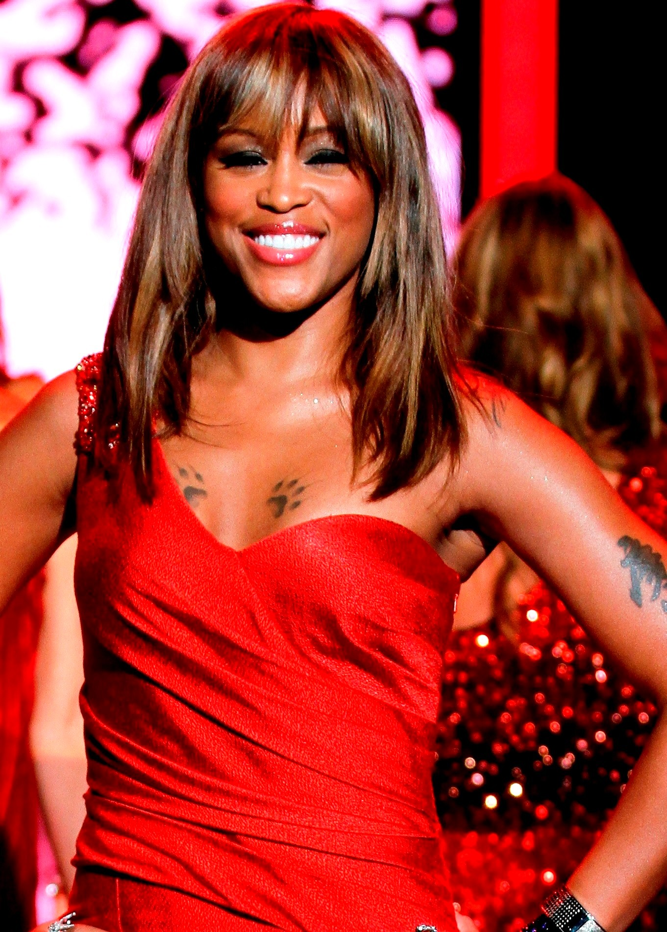 Making its debut at the Lincoln Center venue, The Heart Truth’s Red Dress Collection Fashion Show unveiled its 2011 collection of red dresses designed to celebrate the Red Dress as the national symbol for women and heart disease awareness. More than 20 of today’s top celebrities walked the runway in red dresses by America’s top designers to inspire women to take action to protect their heart health. The Heart Truth® is a national awareness campaign for women about heart disease sponsored by the National Heart, Lung, and Blood Institute (NHLBI), part of the National Institutes of Health, U.S. Department of Health and Human Services (HHS). ® The Heart Truth, its logo and The Red Dress are registered trademarks of HHS. Participation by Mercedes-Benz Fashion Week, Diet Coke, Swarovski, AOL, and Bobbi Brown does not imply endorsement by HHS.